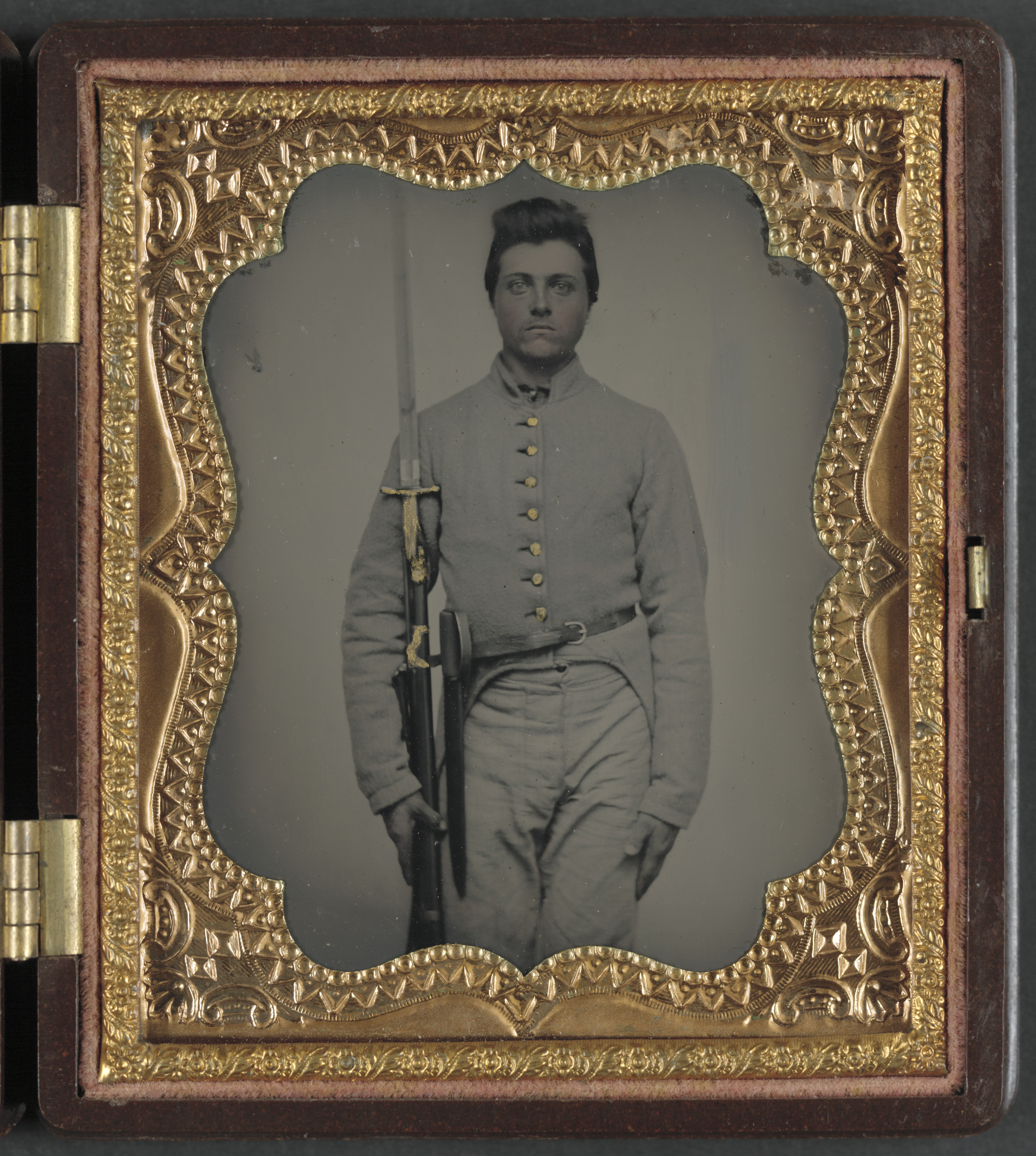 Title: Private Parris P. Casey of Company I, "Cherokee Rangers," 19th Alabama Infantry Regiment, with bayoneted musket Abstract/medium: 1 photograph : sixth-plate ambrotype, hand-colored ; 9.5 x 8.3 cm (case)